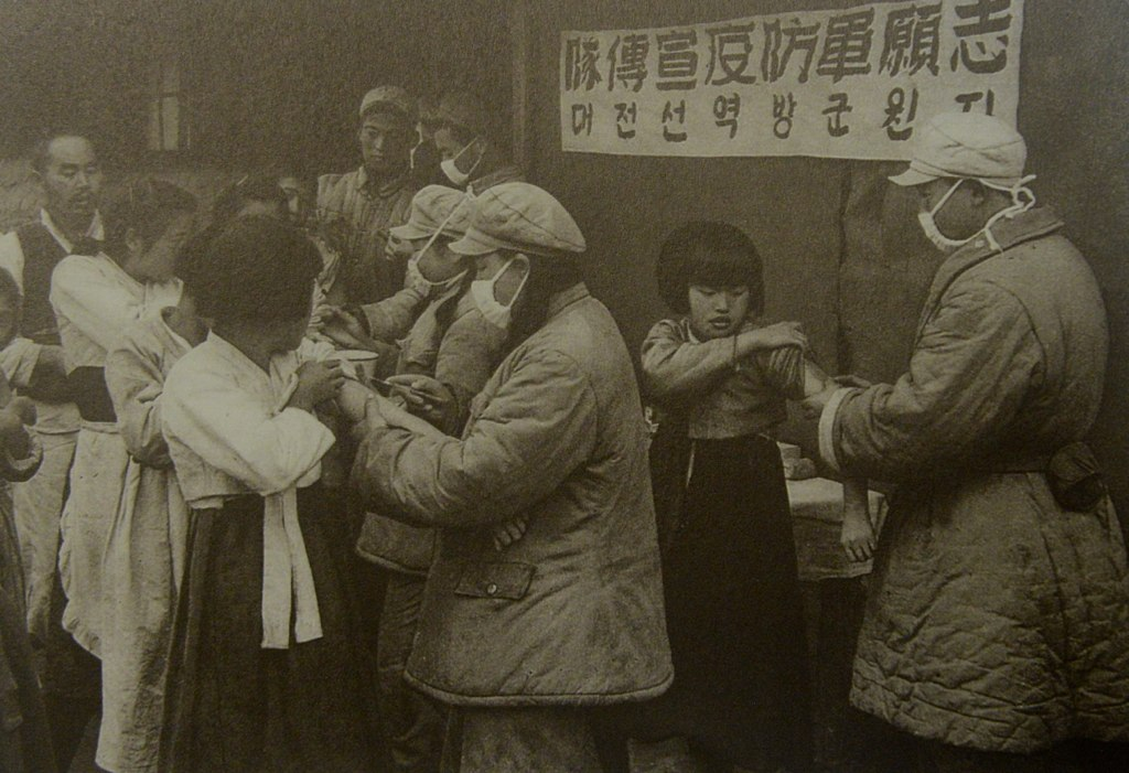 Chinese quarantine corps disinfecting North Koreans.